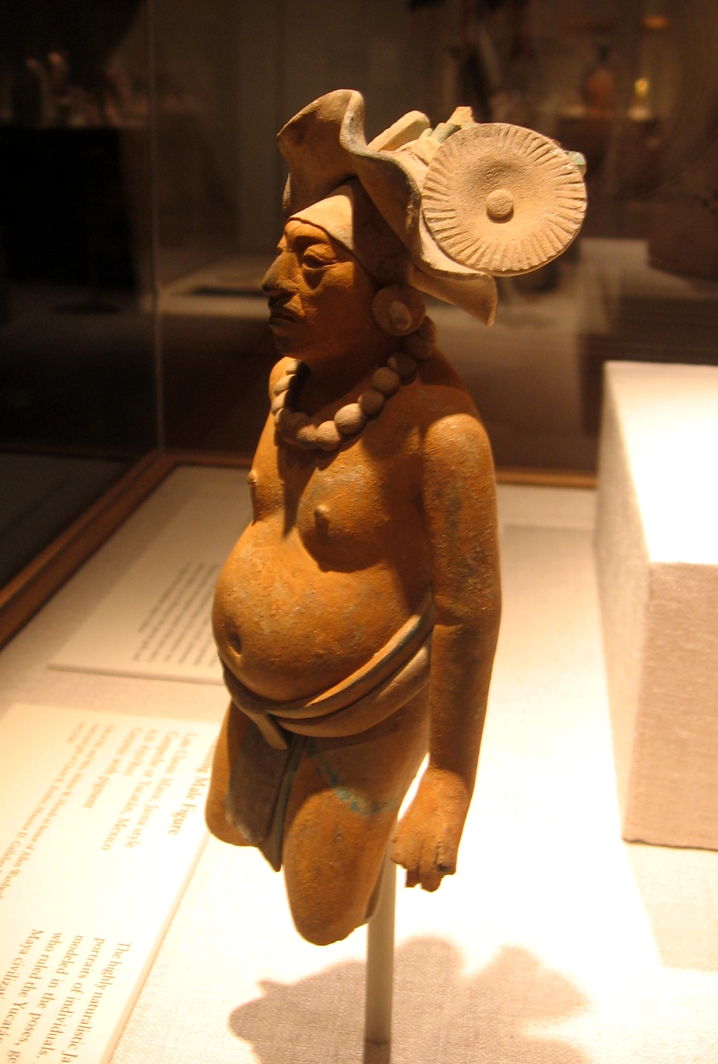 A Jaina Island type figure from the Maya culture. 650 - 800 AD height: 15.6 cm (6 1/8 in.) from Art Institute of Chicago (artifact description).